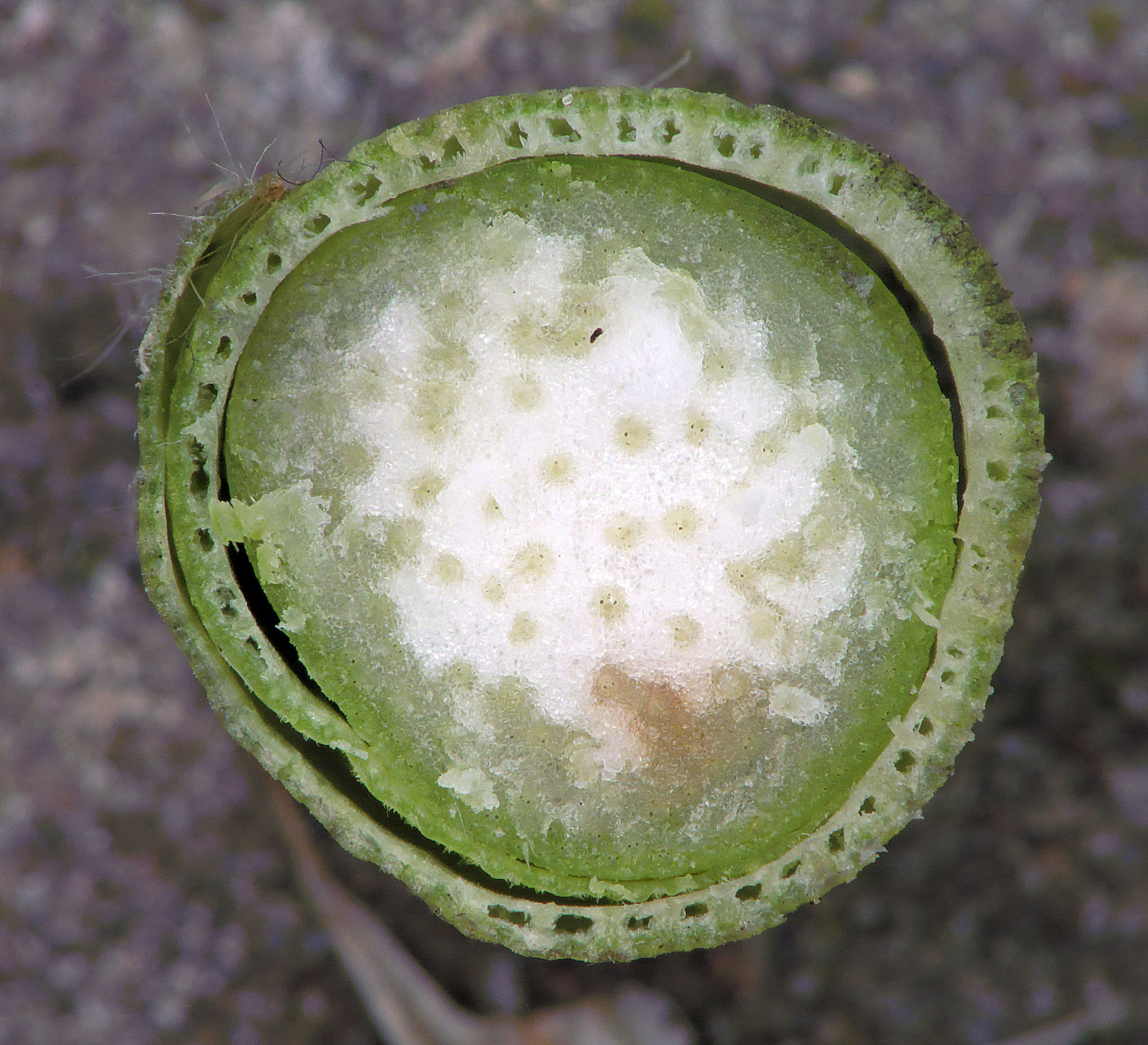 Zea mays convar. saccharata flowerstem cross section